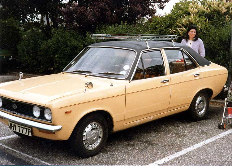 1976 Hillman Avenger 1.6, photographed in England by Adrian Pingstone in 1982, and released to the public domain.